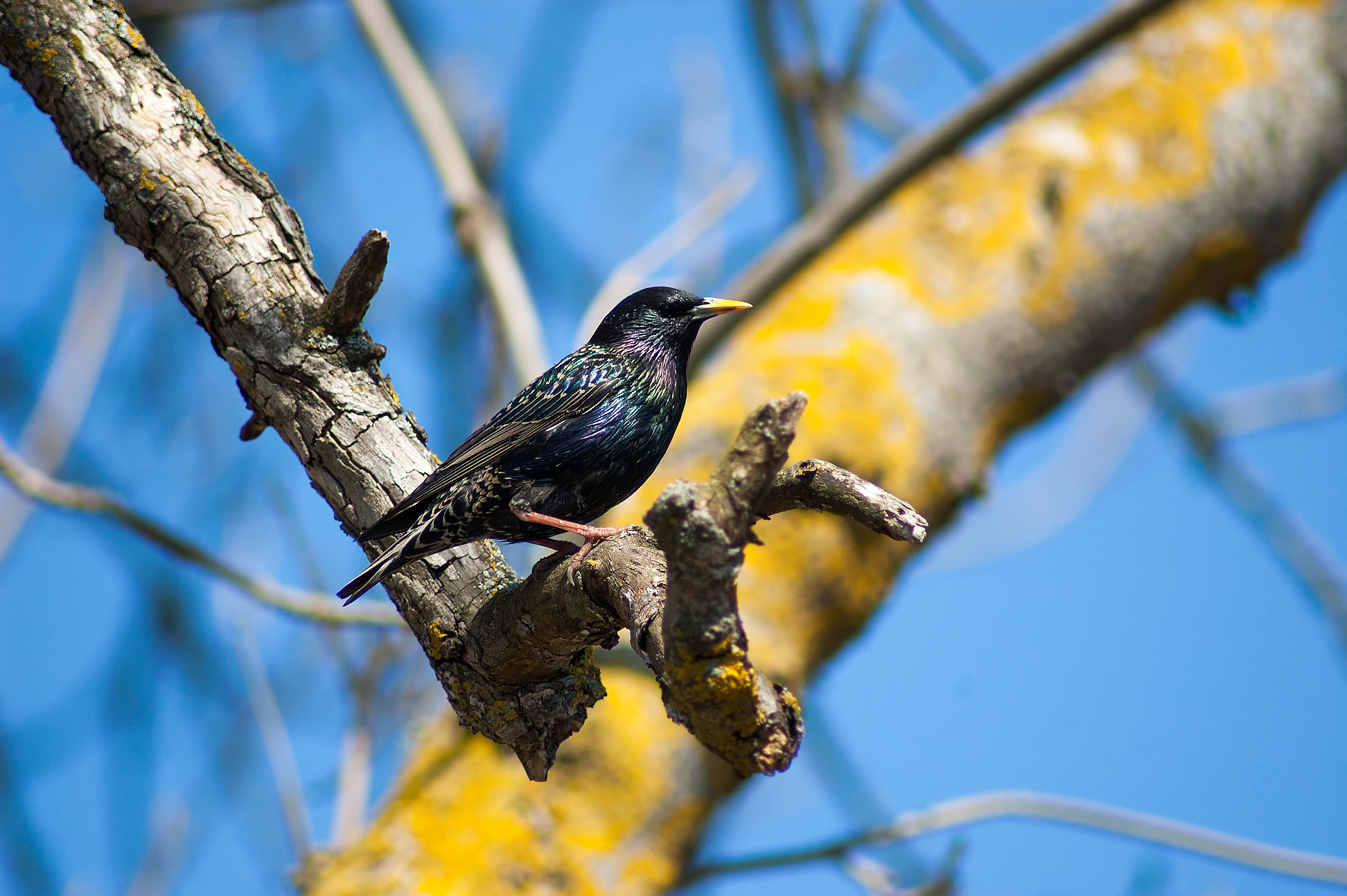 Common Starling